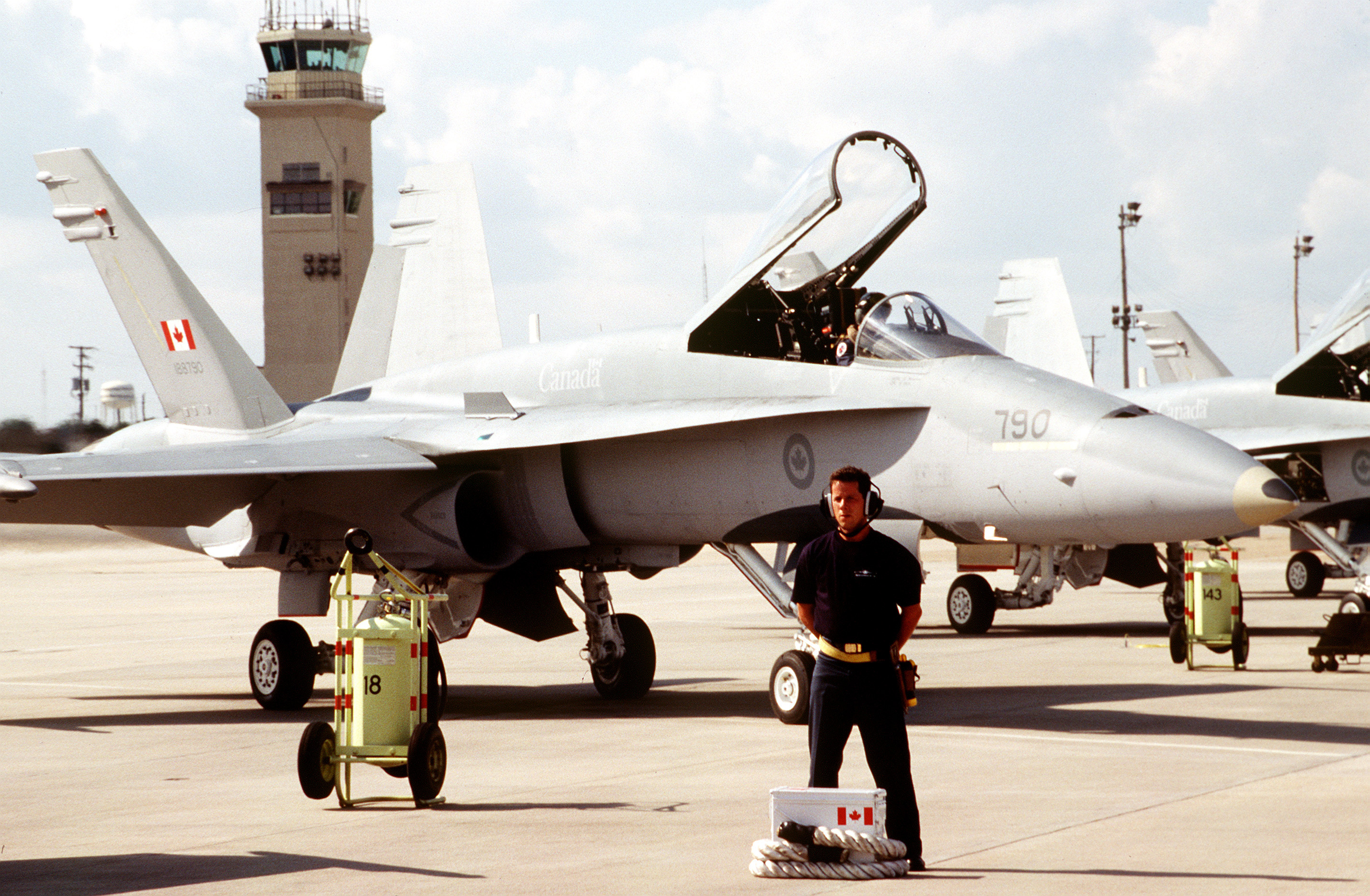 Cpl. Pierre Brisson, a crew chief from the 3rd Fighter Wing, Canadian Air Force, awaits the departure of his CF-18 fighter aircraft for a mission profile sortie during the competition.Location: TYNDALL AIR FORCE BASE, FLORIDA (FL) UNITED STATES OF AMERICA (USA)